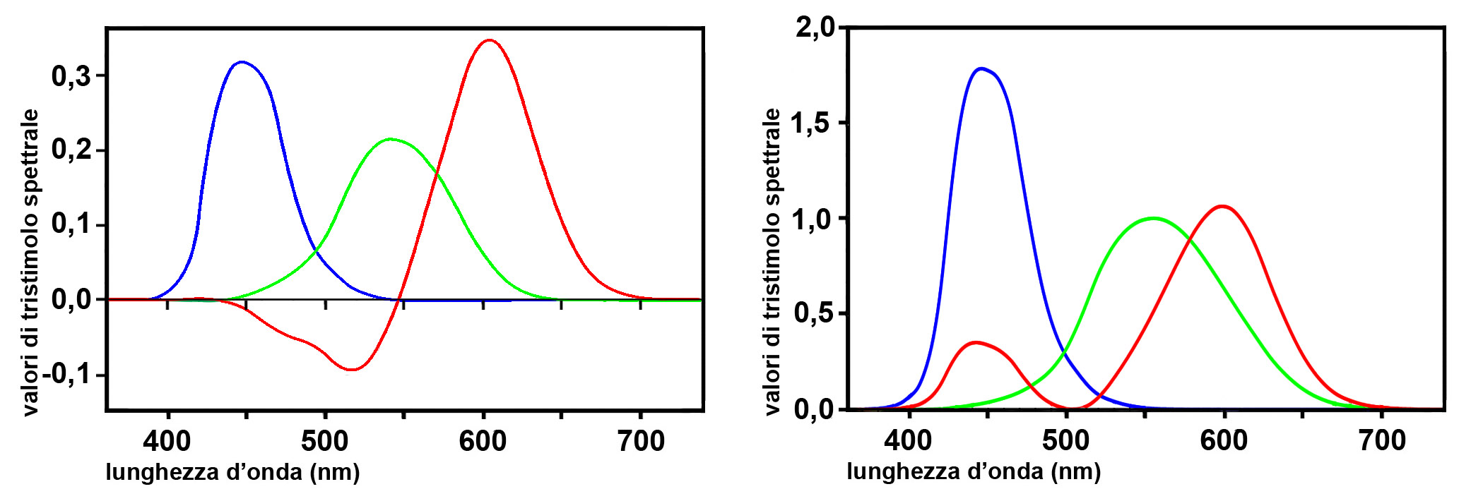 Letf: CIE 1931 color‐matching functions derived from Wright and Guild data. Righr: (color‐matching functions of) CIE 1931 Standard Observer, derived from the functions on thr left.